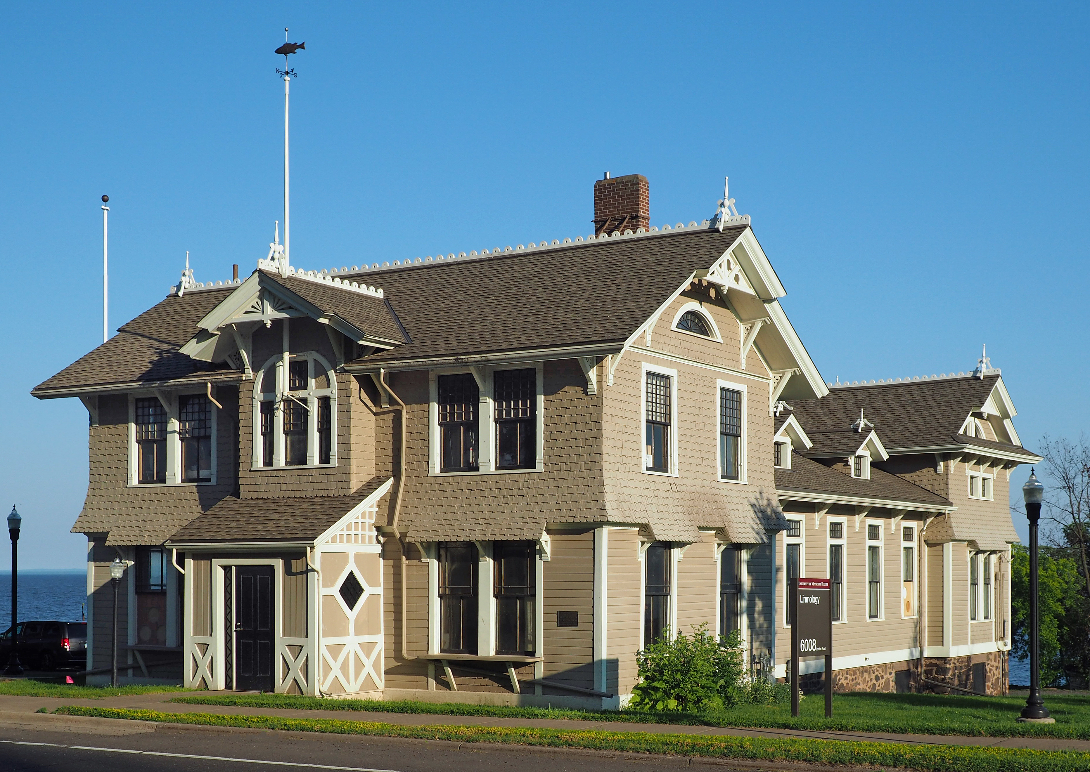 Lab building, Lester River Fish Hatchery, 6008 London Road, Duluth, Minnesota, USA. Viewed from the northwest.